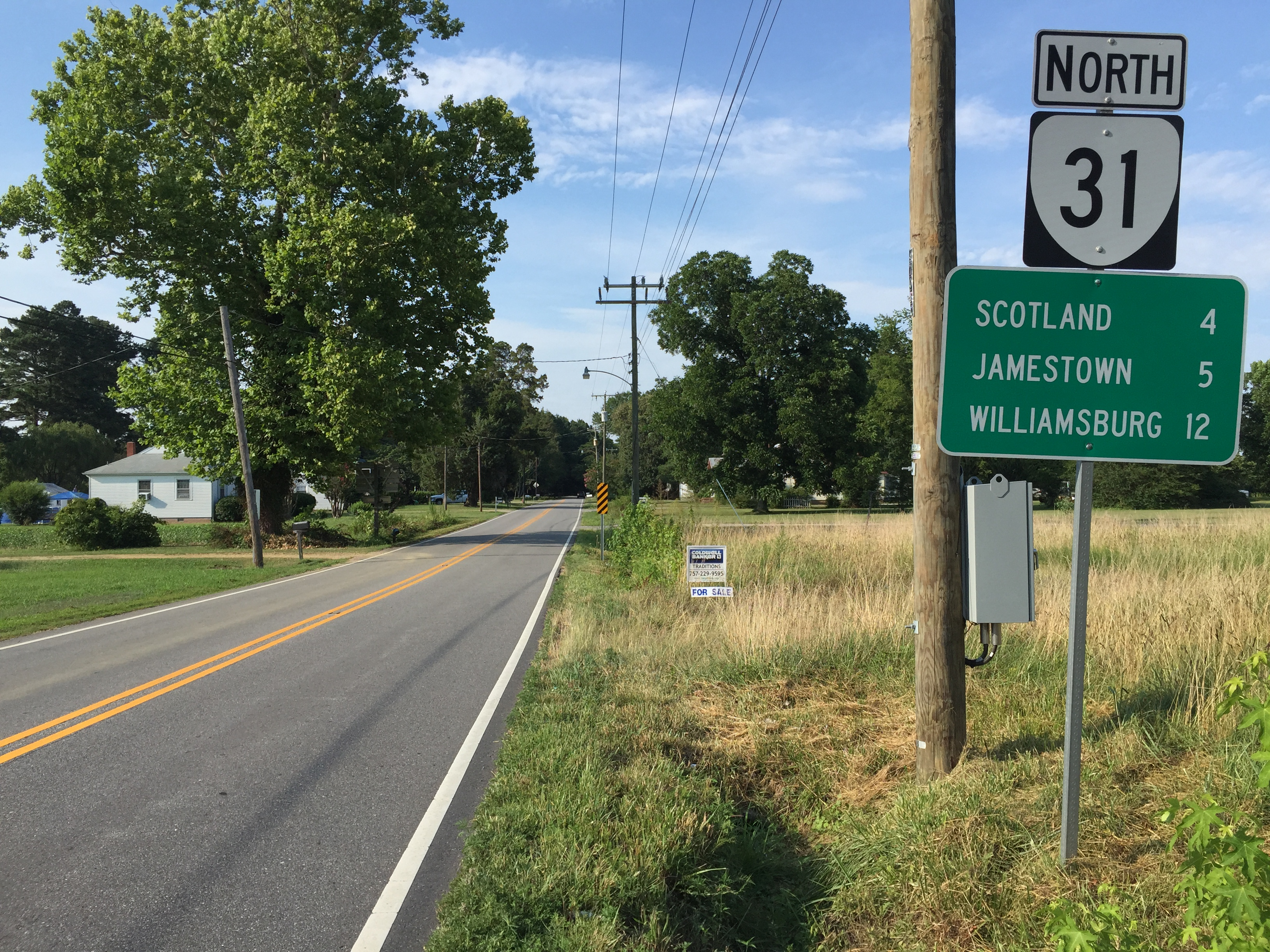 View north along Virginia State Route 31 (Rolfe Highway) just north of Virginia State Route 10 (Colonial Trail) in Surry, Surry County, Virginia